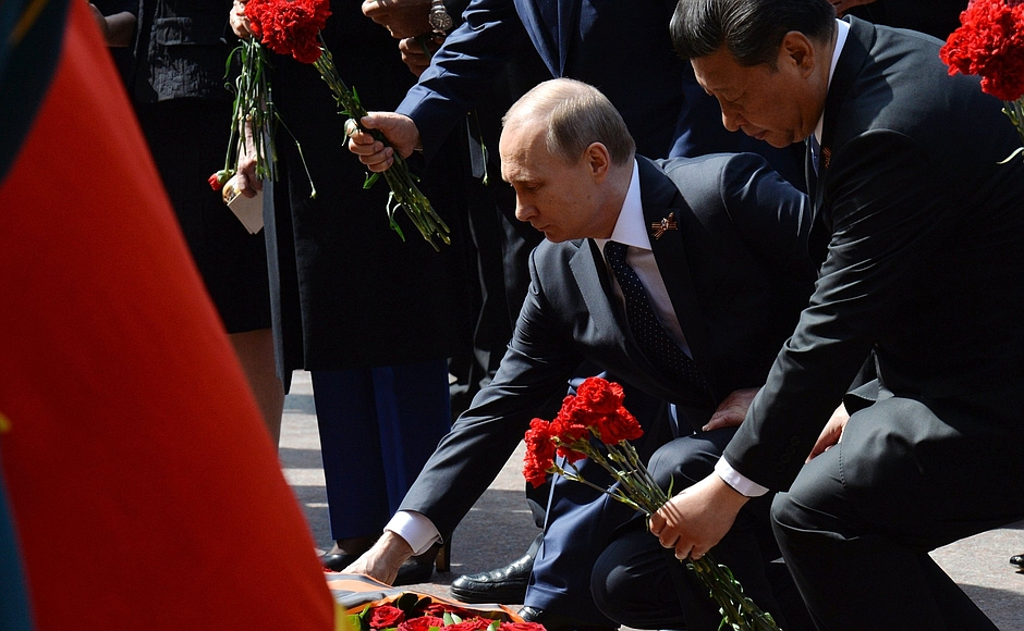 President Putin and Chinese President Xi Jinping laying flowers at The Tomb of the Unknown Soldier in Alexander Garden, Moscow, on Victory Day, 2015.